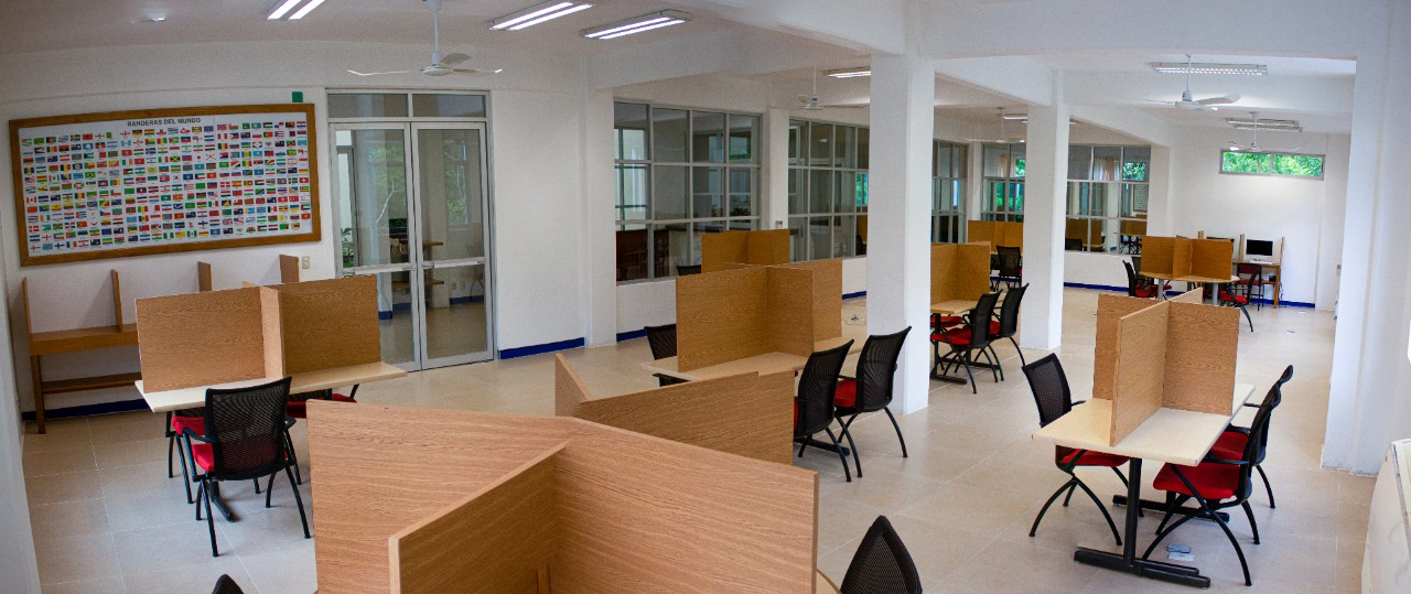 Reading Room inside of the Institute of International Relations Isidro Fabela